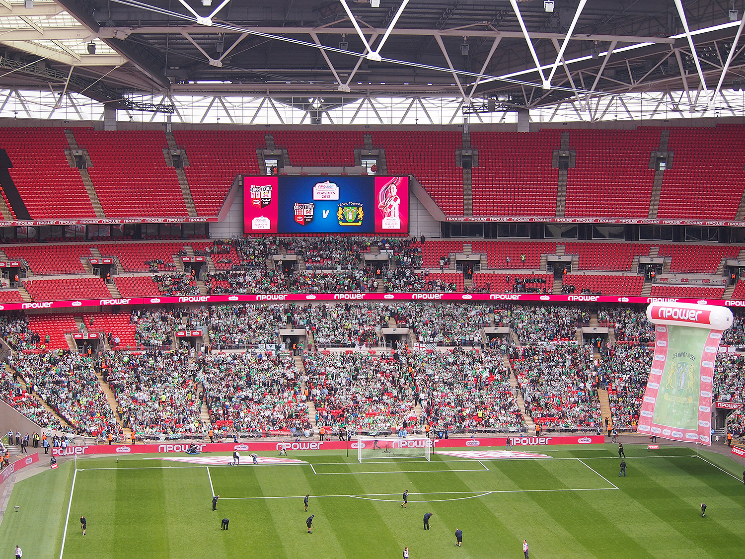 Yeovil fans at Wembley Stadium prior to the 2013 Football League One play off final.